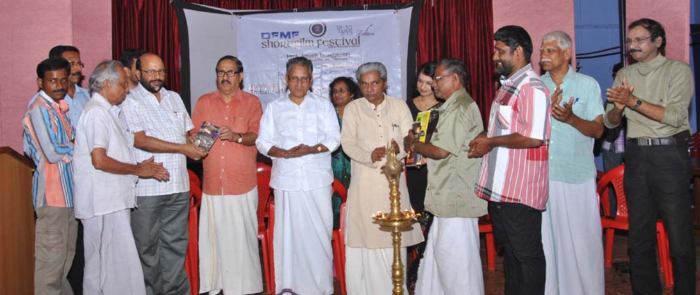 Dr.P.V.Krishnan Nair, Secretary, Kerala Sangeetha Nataka Akademi release the book 'Laloorinu Parayanullathu' written by Sathish Kalathil and R.Gopalakrishnan, Secretary, Kerala Sahithya Akademi receives the book. Adv. Therambil Ramakrishnan (M L A), M.S. Jaya (Dist. Collector, Thrissur), Dr. K.G. Poulose (Ex. Vice Chancellor, Kerala Kalamandalam), Kalamandalam Hemalatha (Dancer, Guinness Book Holder), K Radhakrishnan (Chairman, T D A, Thrissur) Dr. Sister Jesme (Writer) are in near.